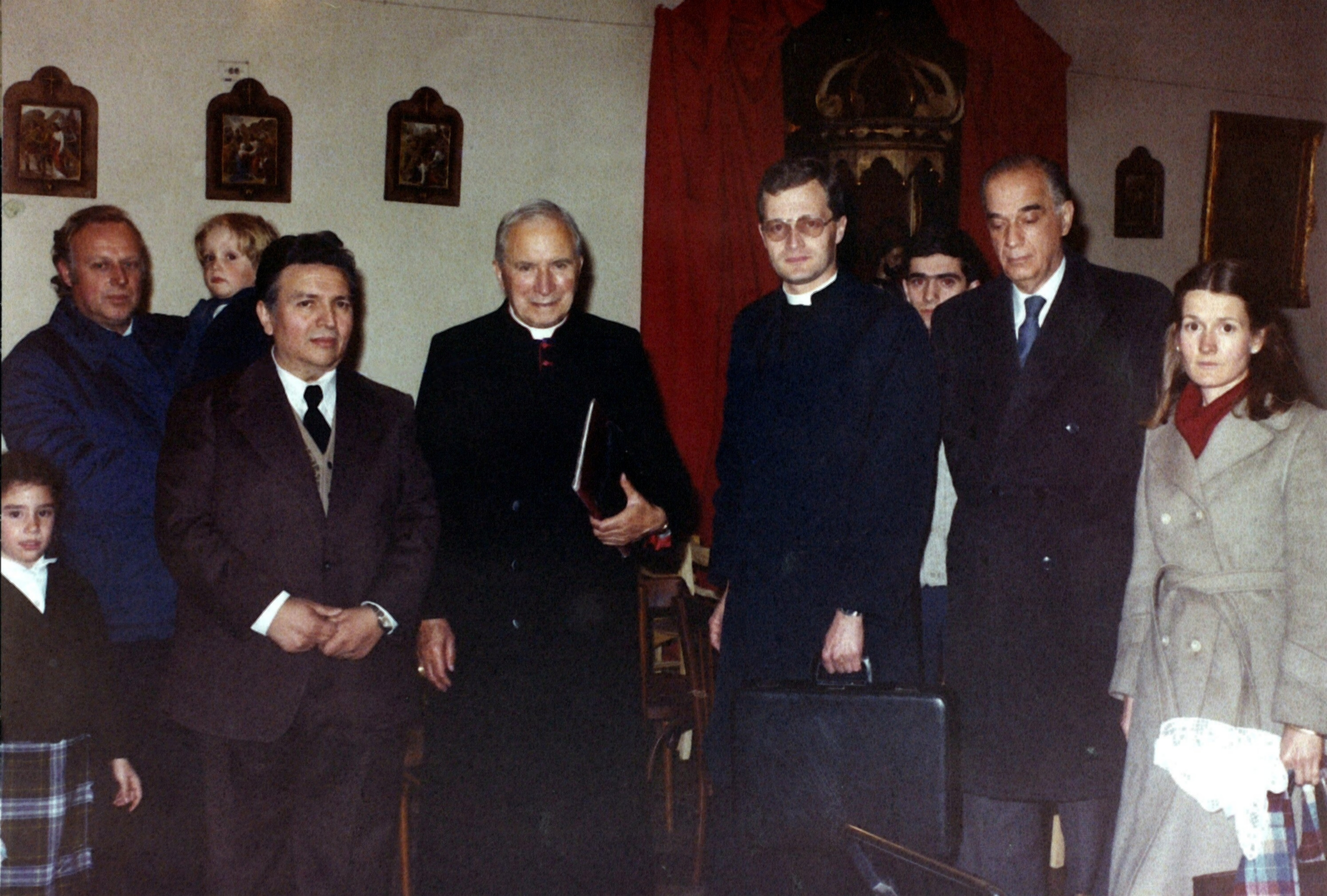 Marcel Lefebvre in Cordoba, Argentina.